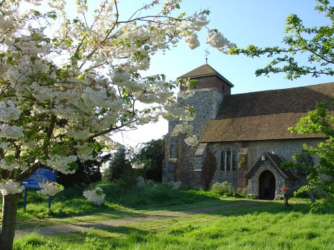 St Peter's Church, Molash